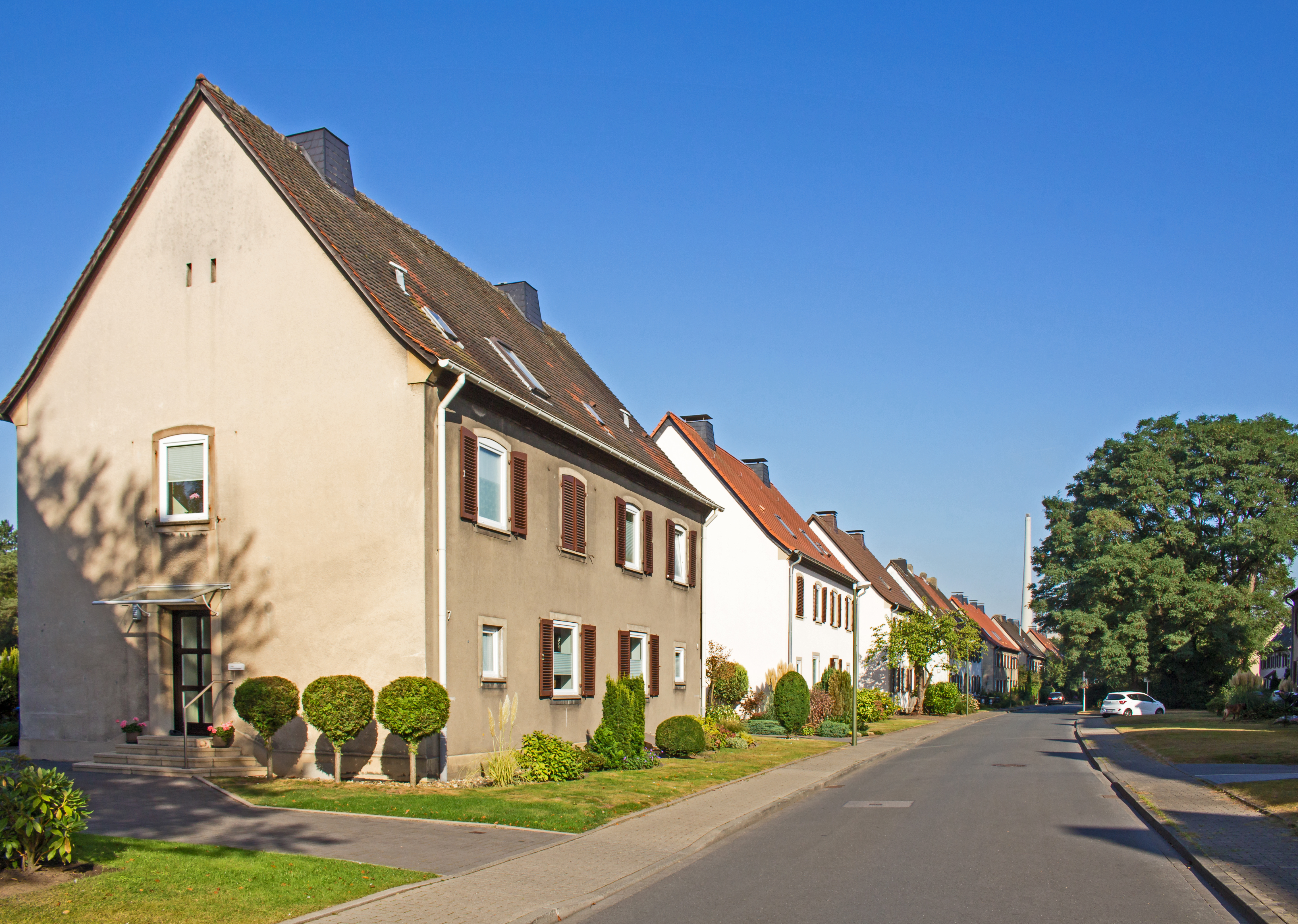 colony "Bereitsschaftssiedlung", Hiberniastraße - Marl, North Rhine-Westphalia, Germany